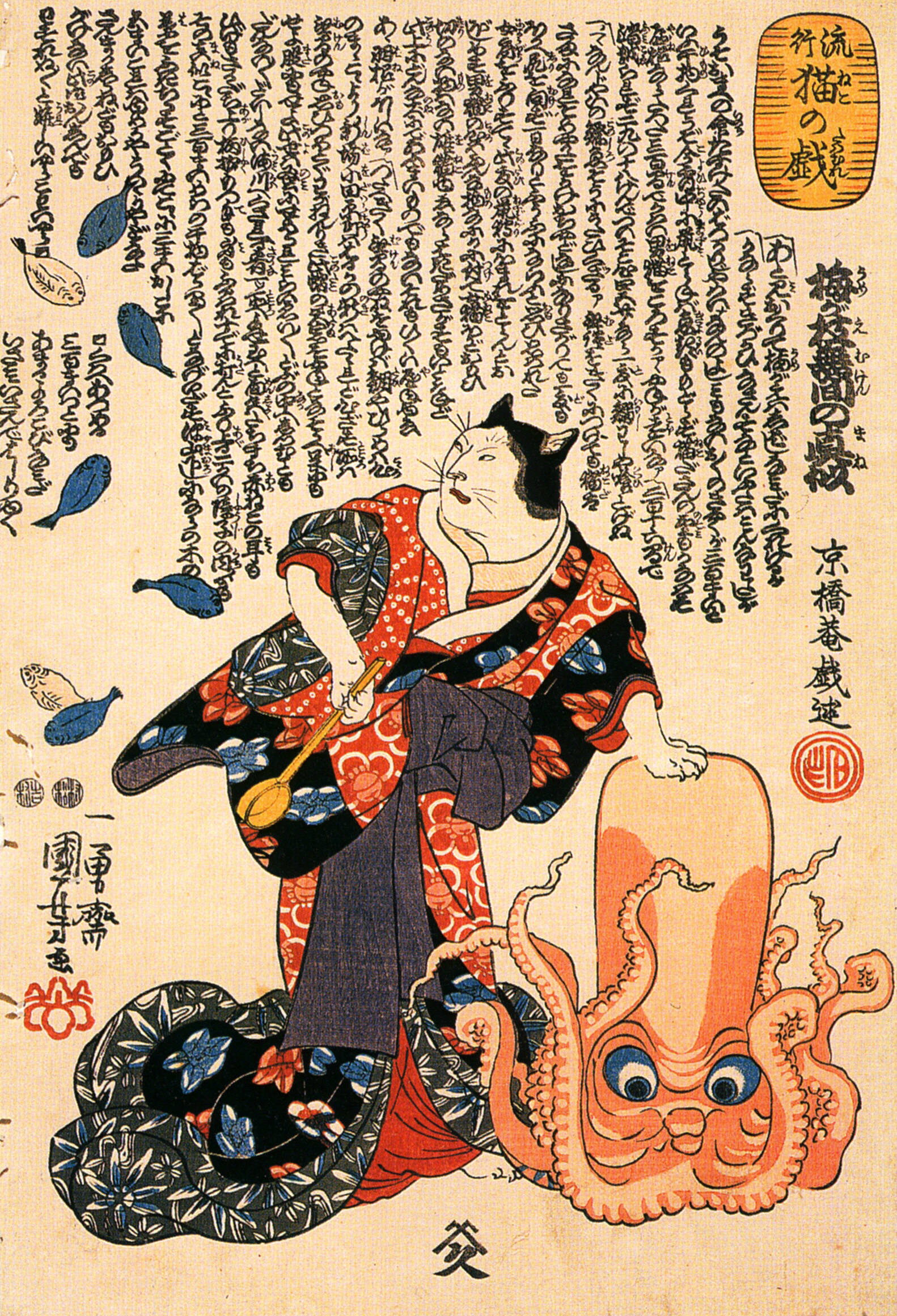 A cat dressed as a woman tapping the head of an octopus